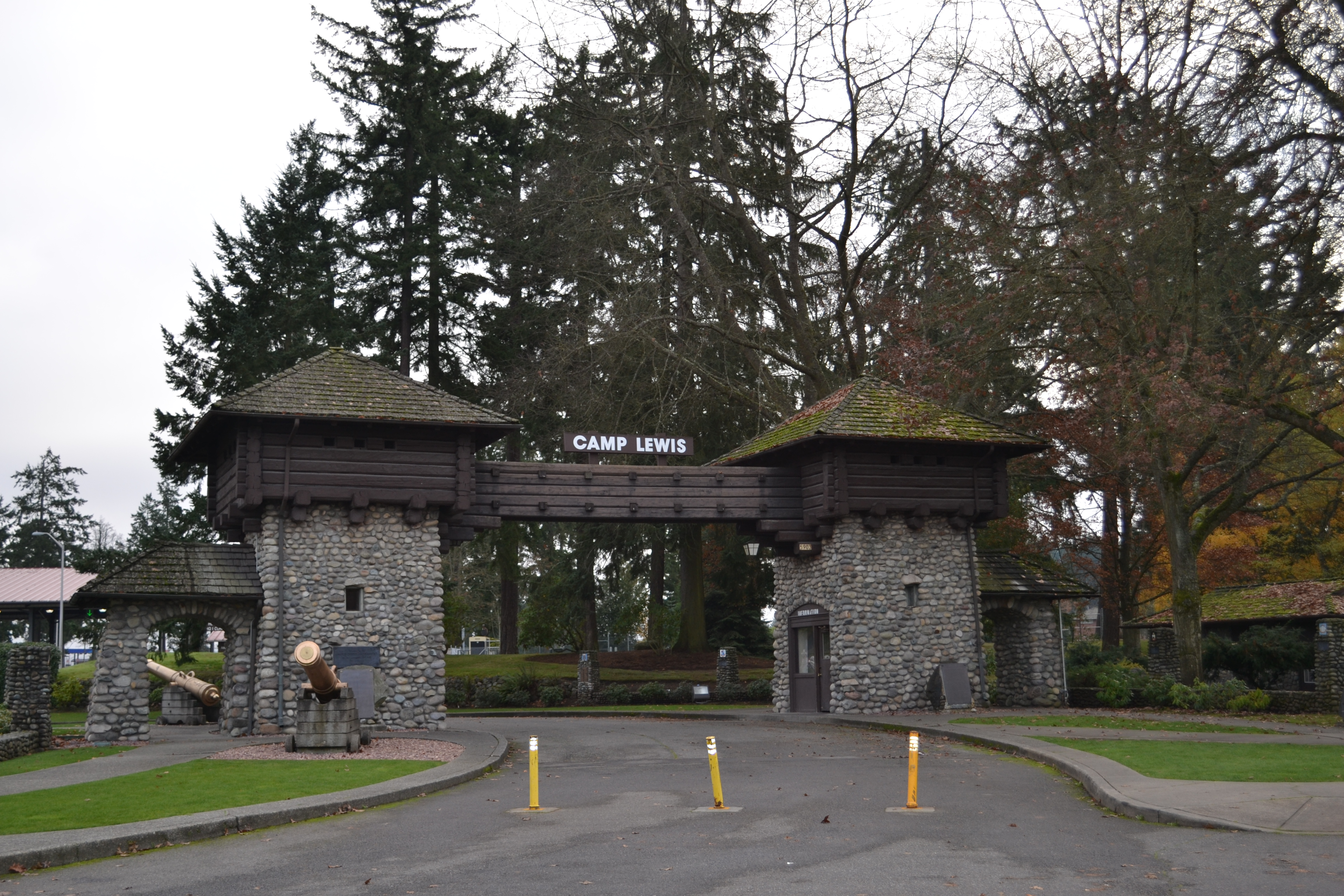 Old gate